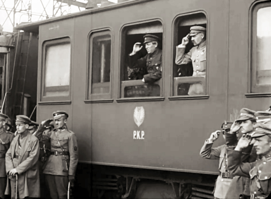 Józef Piłsudski i Symon Petlura, Kiev Offensive (1920) during Polish-Soviet War.